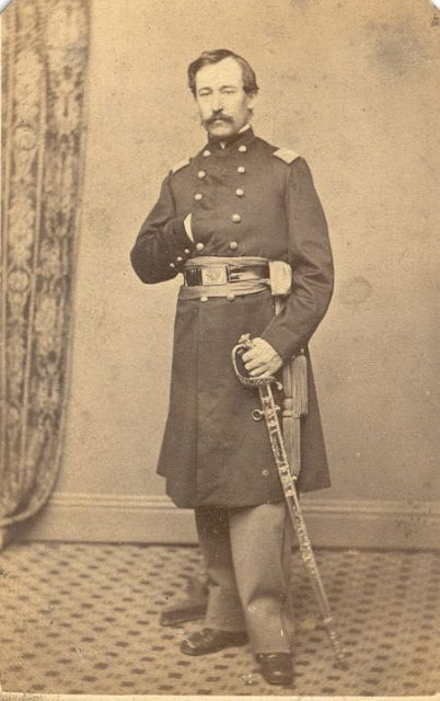 Photo of George Hull Ward